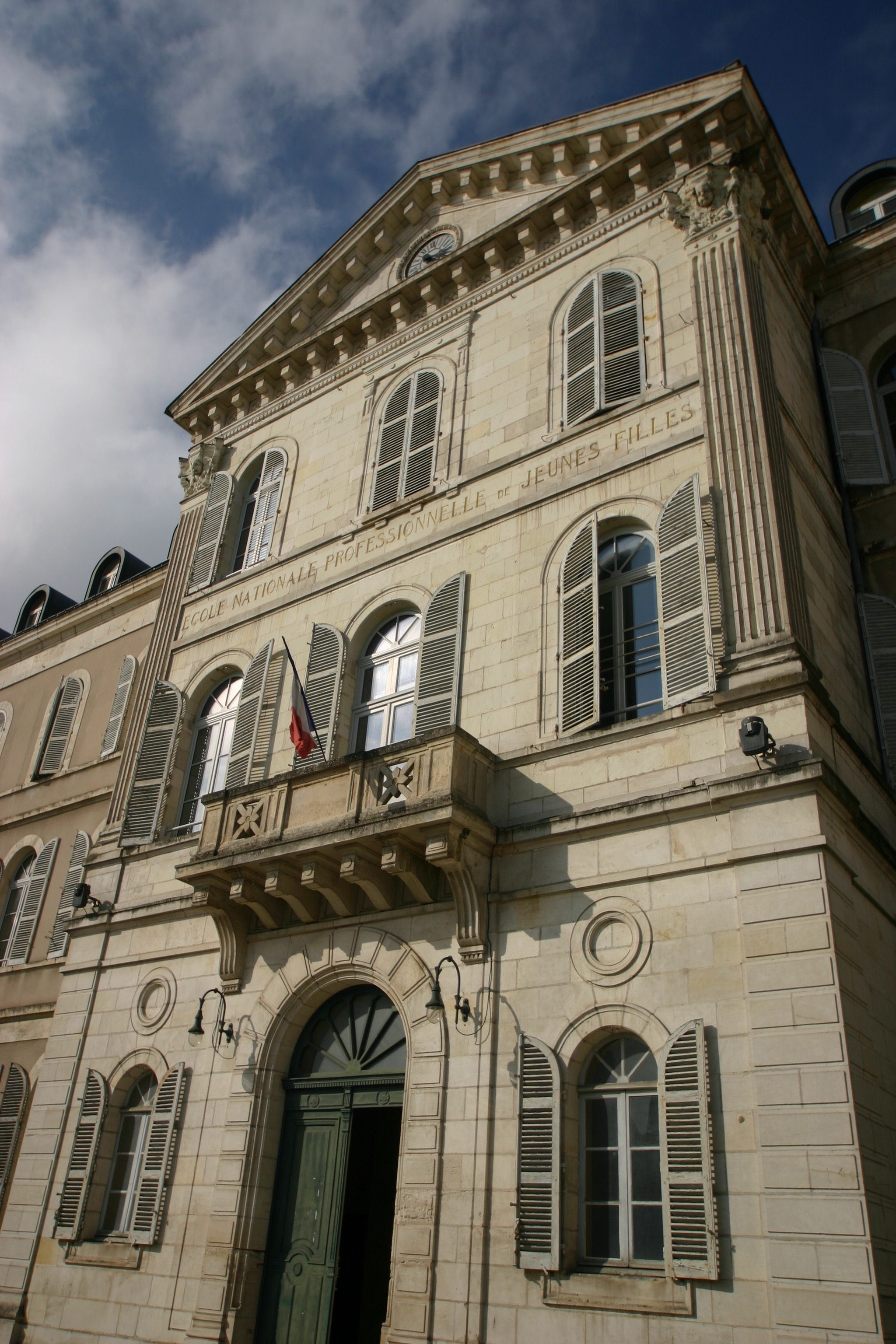 This image represents the main facade, to the right of the entrance of the Jacques Coeur high school, in Bourges (18), France